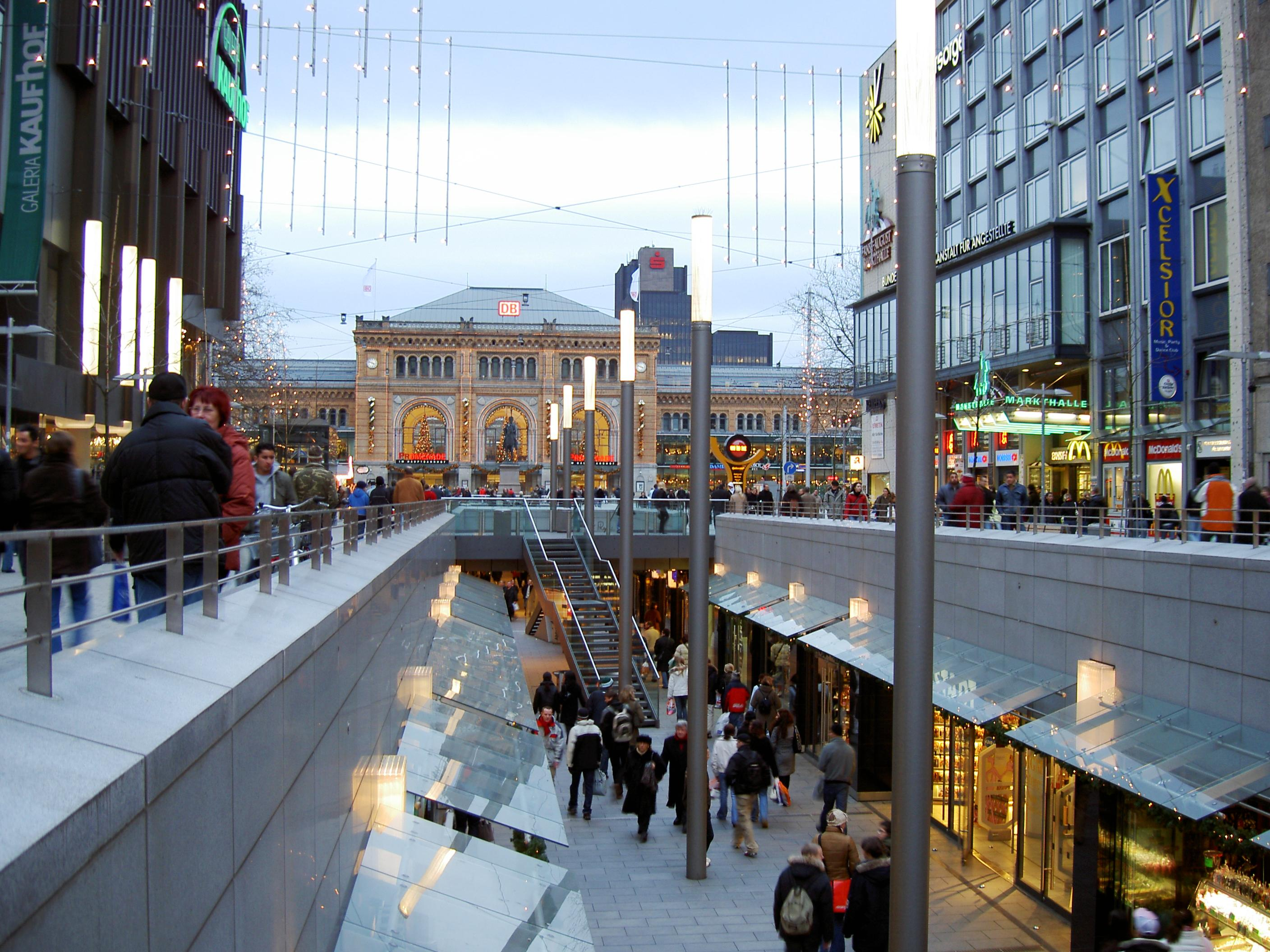 Bahnhofstraße, Ernst-August-Denkmal, Hannover Hauptbahnhof